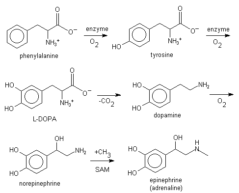 Chemical Structure of Phenylalanine